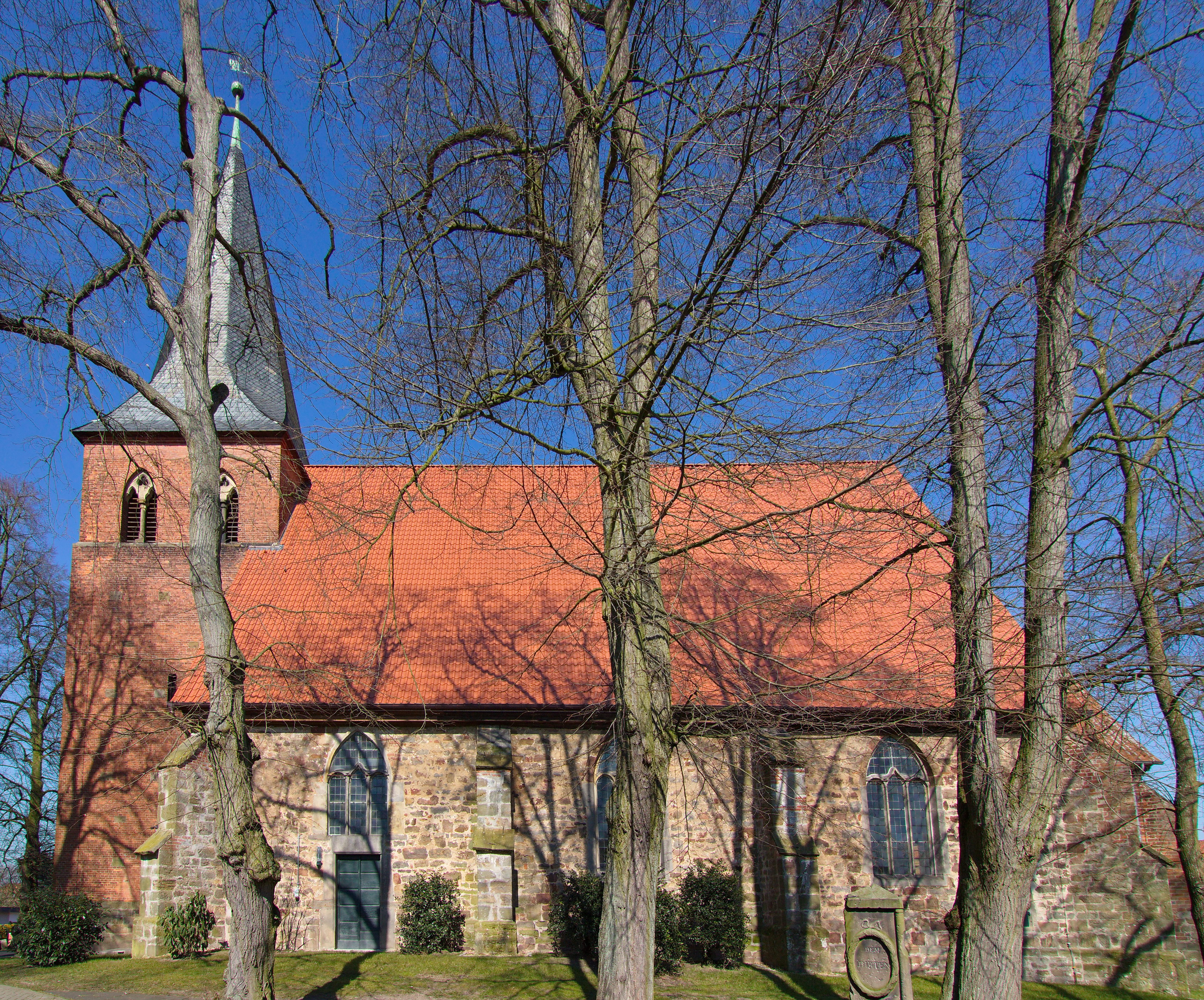 St. Laurentiuskirche in Liebenau, Niedersachsen, Deutschland